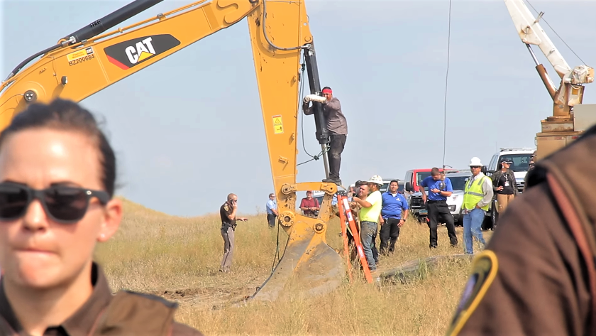 "August 31st, 2016 - North Dakota - The #NoDAPL water protectors who have come to stand with Standing Rock Sioux Tribe took non-violent direct action by locking themselves to construction equipment. This is "Happy" American Horse from the Sicangu Nation, hailing from Rosebud."